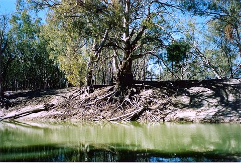 Darling River, Pooncarie. River height 1.5 metres at time of photograph